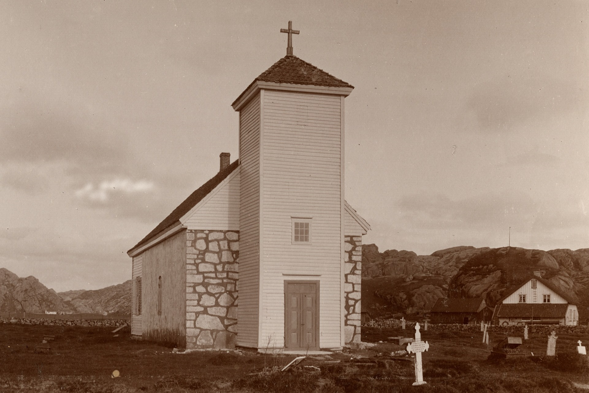 Ogna kirke fotografert av Christian Christensen Thomhav. Kirken brant i 1991 og ble gjenoppbygget i 1995. Den har i dag et anent utseende. Bilde fra Kulkturminnebilder.no.